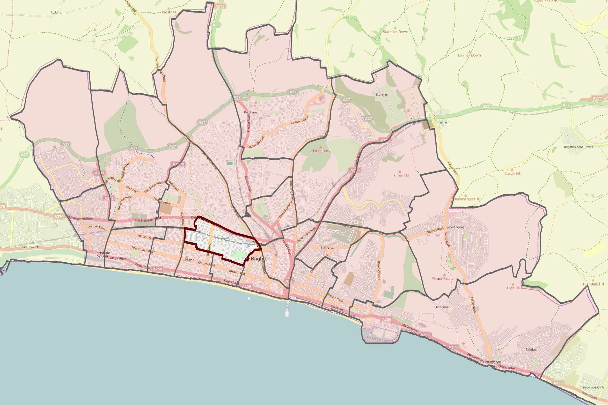 Map of Brighton and Hove wards with one ward highlighted